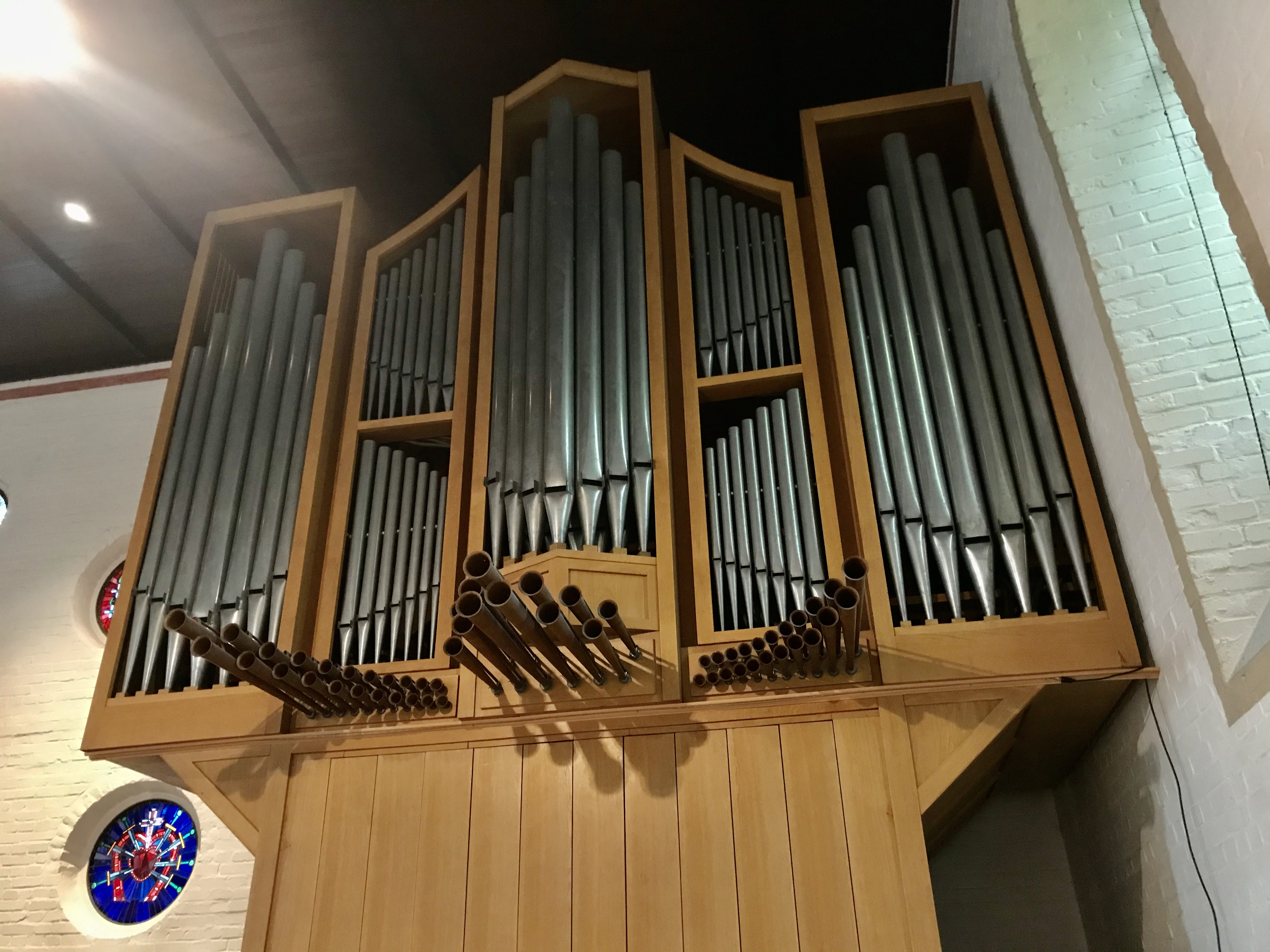 St. Gottfried Münster, Front